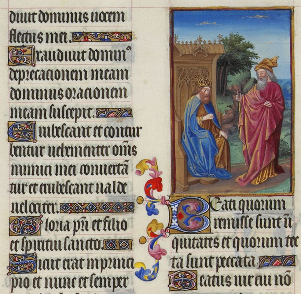 page from an illuminated manuscript depicting the Prophet Nathan admonishing King David with accompanying text